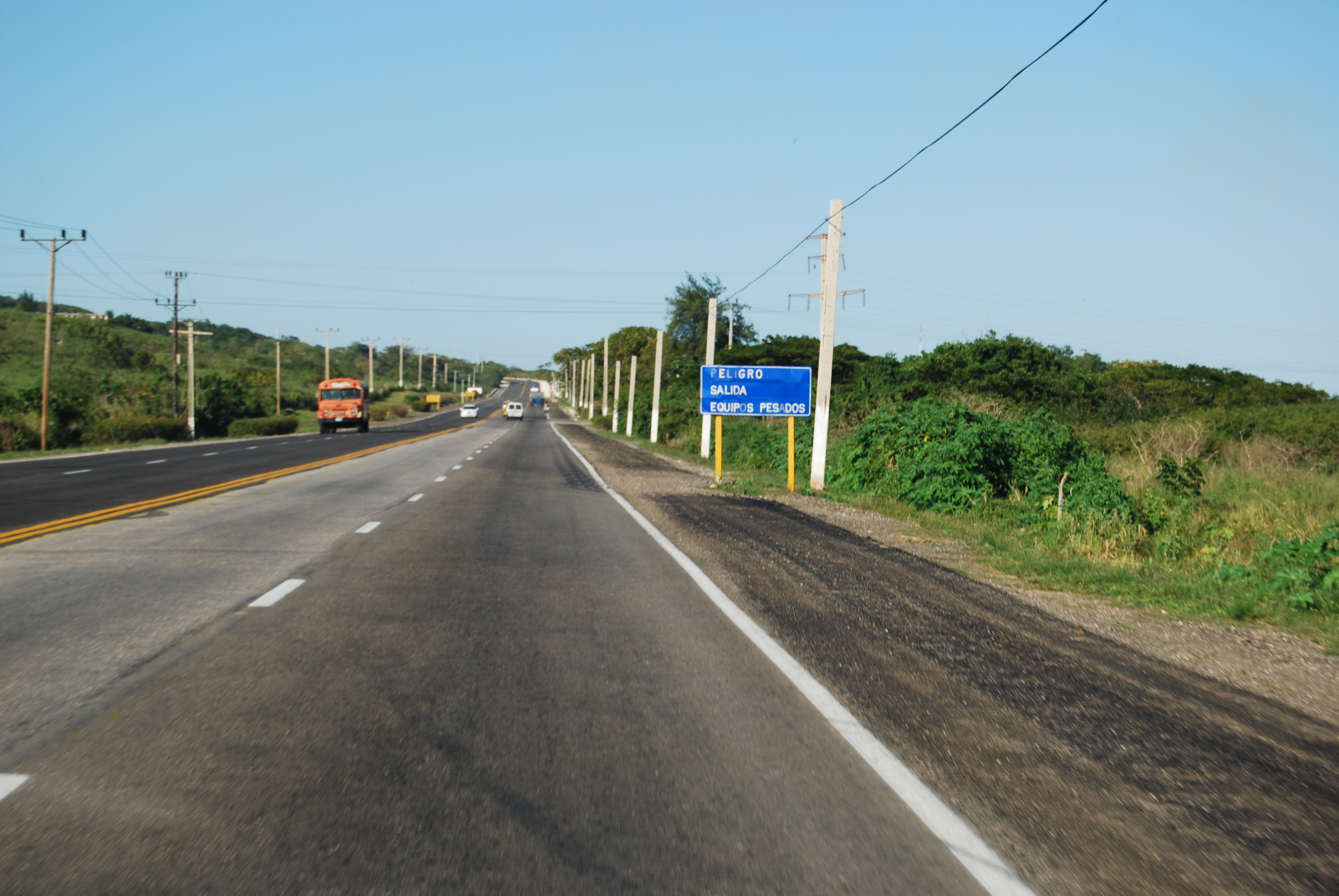 Highway Via Blanca naer Matanzas, Cuba